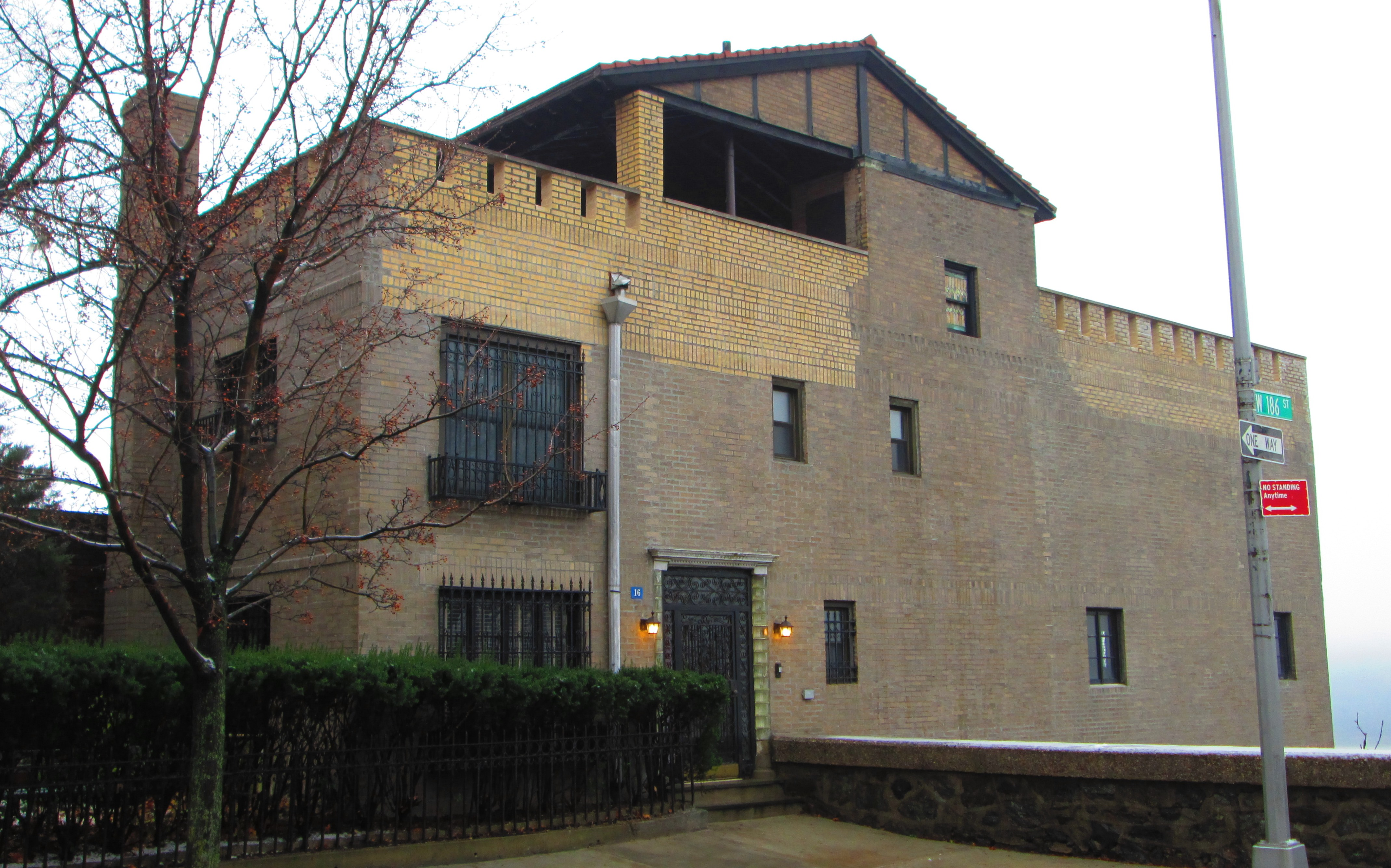 The former guest house of th e Charles V.Paterno estate in the Hudson Heights neighborhood of upper Manhattan, New York City. The estate was redeveloped into the Castle Village co-op complex. Located at 16 Chittenden Avenue at the corner of West 186th Street, the house was built around 1925, and sits on a pier suspended over a sheer drop to the West Side Highway. It was originally commissioned by Cleveland Walcutt, who built it on land he purchased from the estate of the editor of the New York Herald, James Gordon Bennett. The house is sometimes referred to locally as "The Pumpkin House". The three-story house, which in 2010 had only had four owners, includes a self-contained apartment, and sold c.2011 for around $3.9 million. In 2016, it was put on the market at the asking price of $5.25 million, and sold in January 2019 for $2 million. (Sources: AIA Guide to NYC (5th ed.), Gothamist, New York Post)